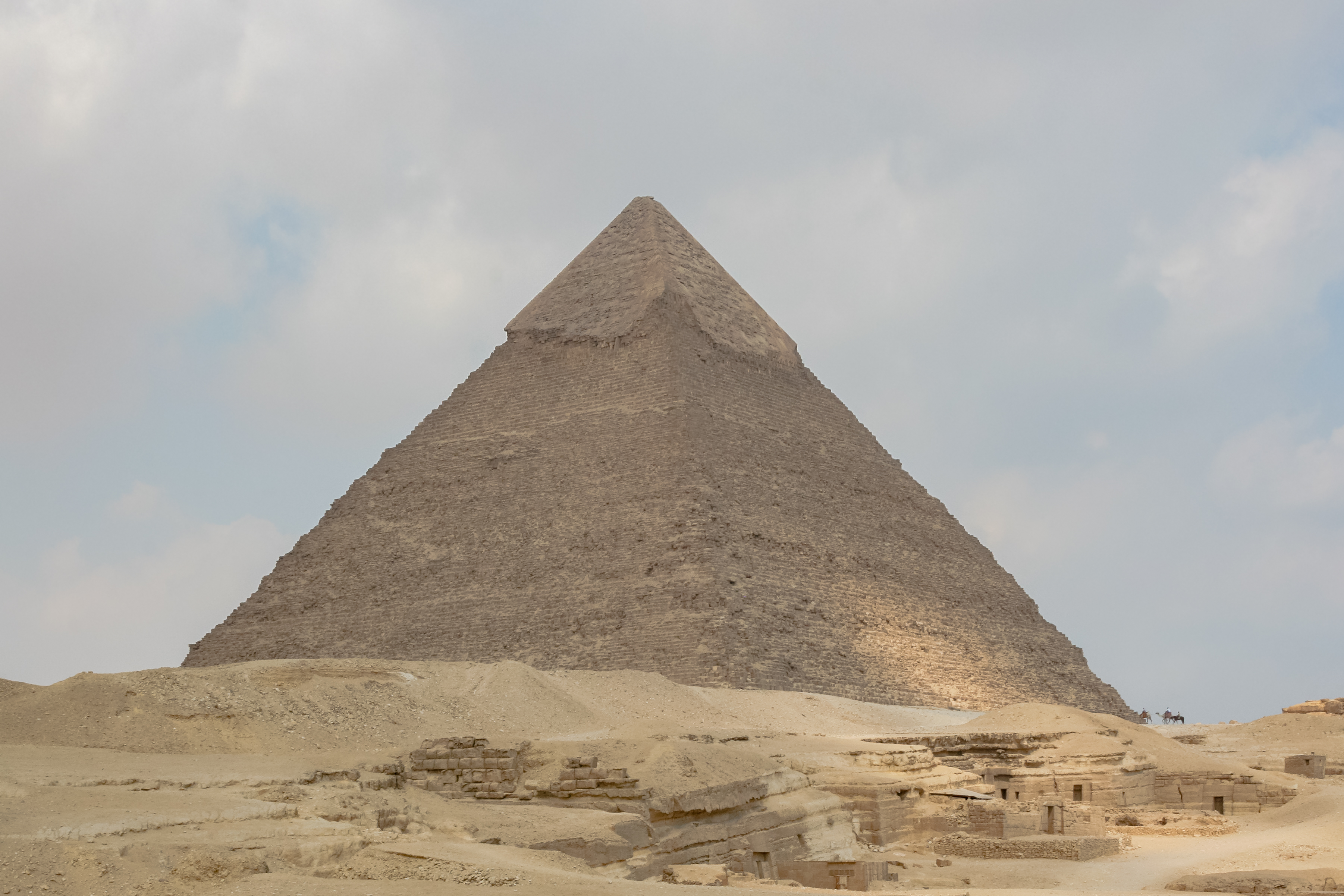 Pyramid of Khafre, Giza, Egipt